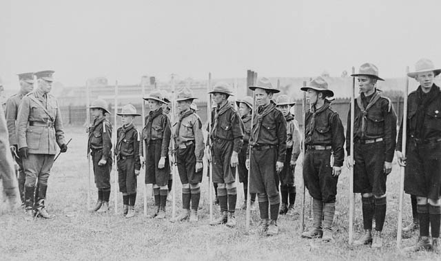 Brigadier-General E.A. Cruikshank reviewing a group of cadets, possibly Boy Scouts. Calgary, Alberta, Canada.